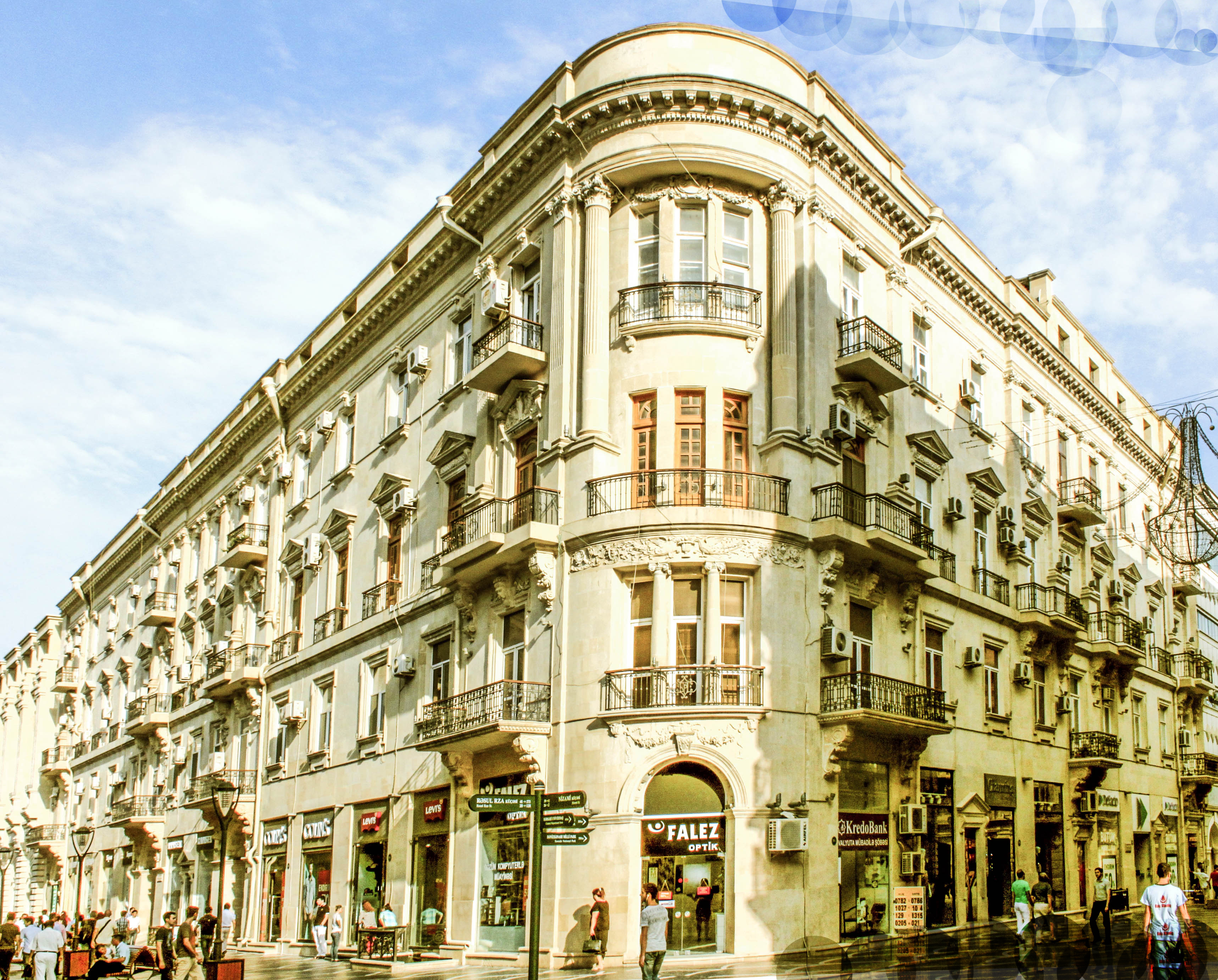 Building on Nizami Street 50